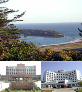 Montage of various Rason images